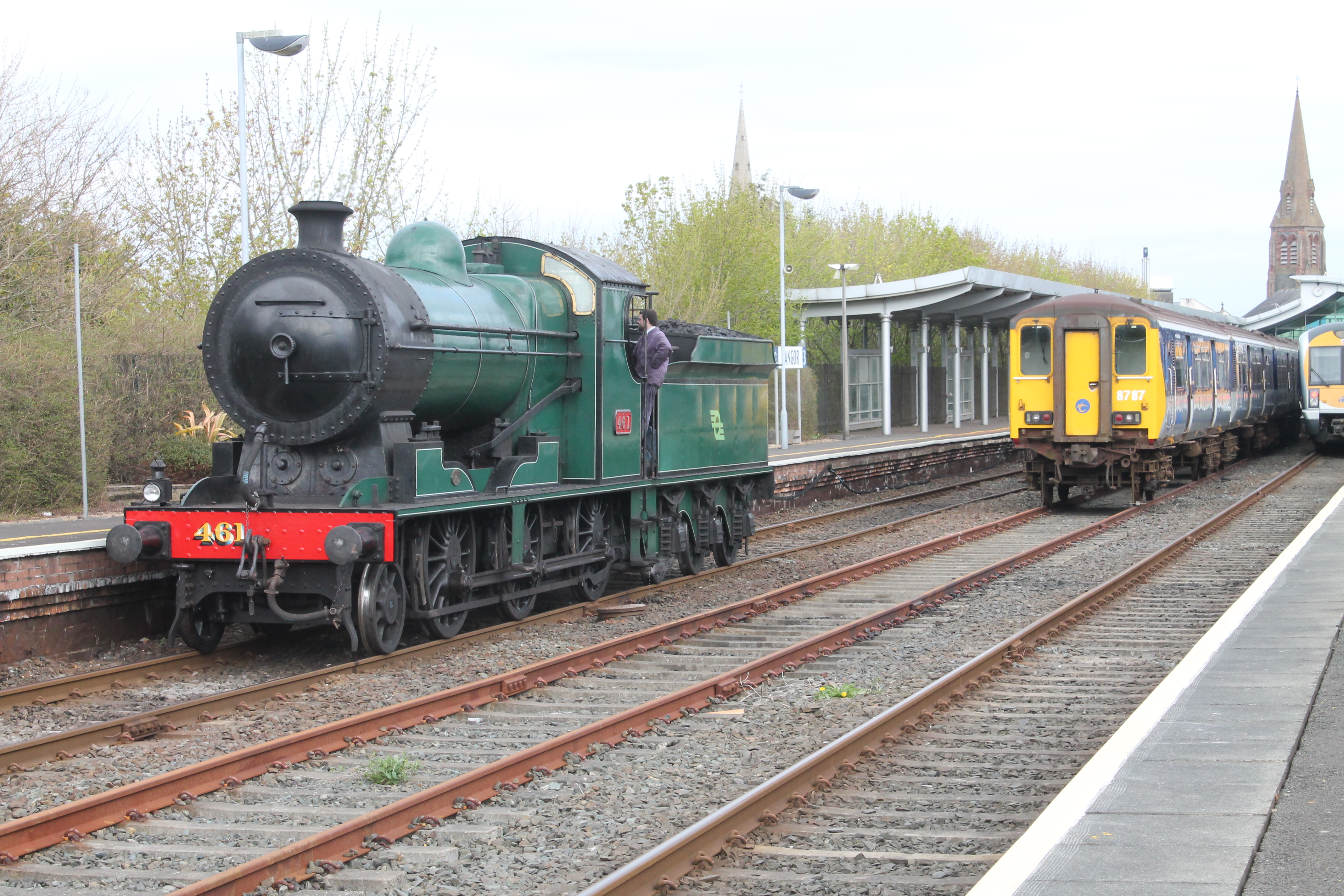 No. 461 at Bangor on a 'Bangor Belle' excursion.